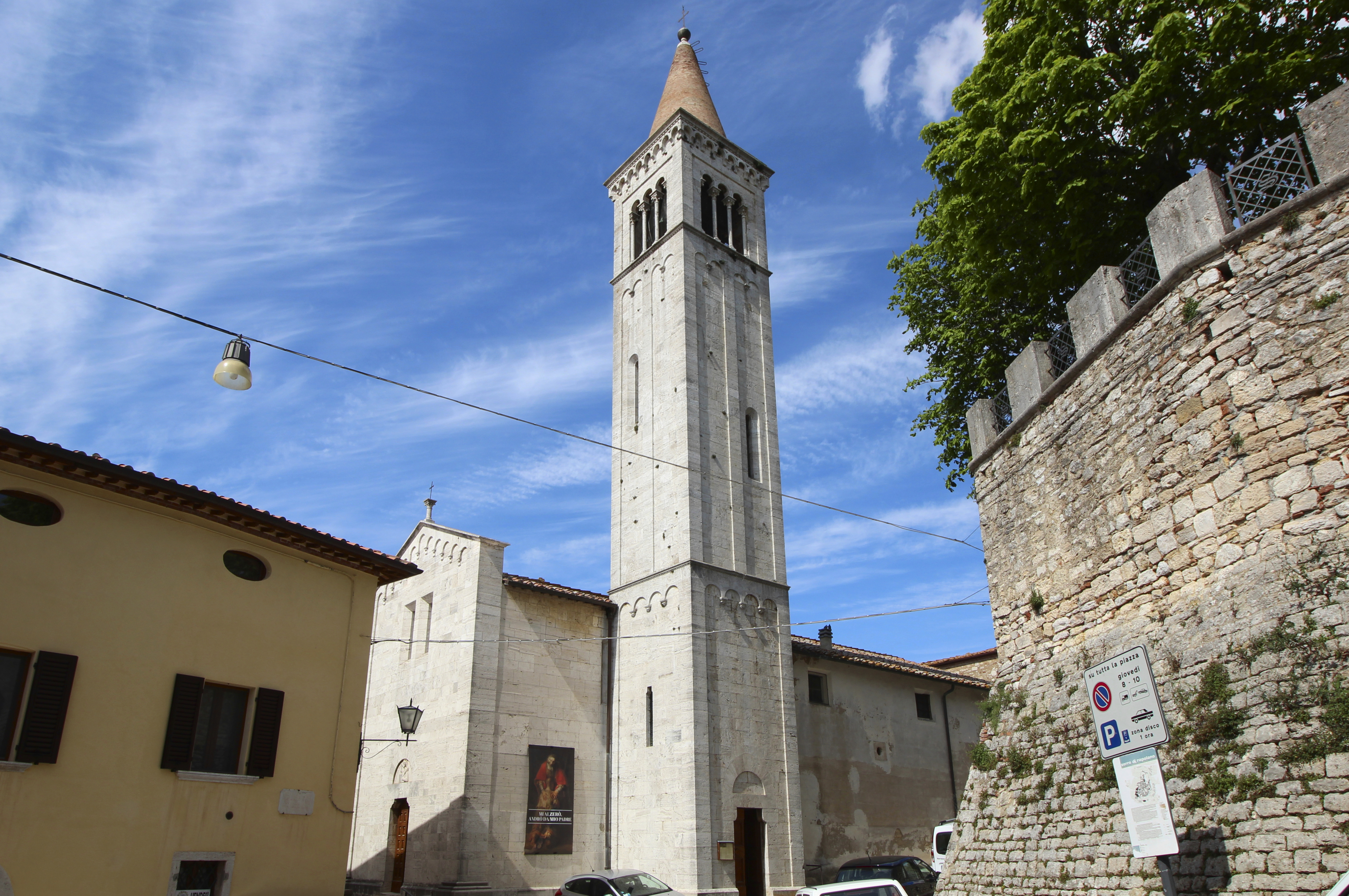 Church Santi Andrea e Lorenzo, Church in the center of Serre di Rapolano, hamlet of Rapolano Terme, Province of Siena, Tuscany, Italy